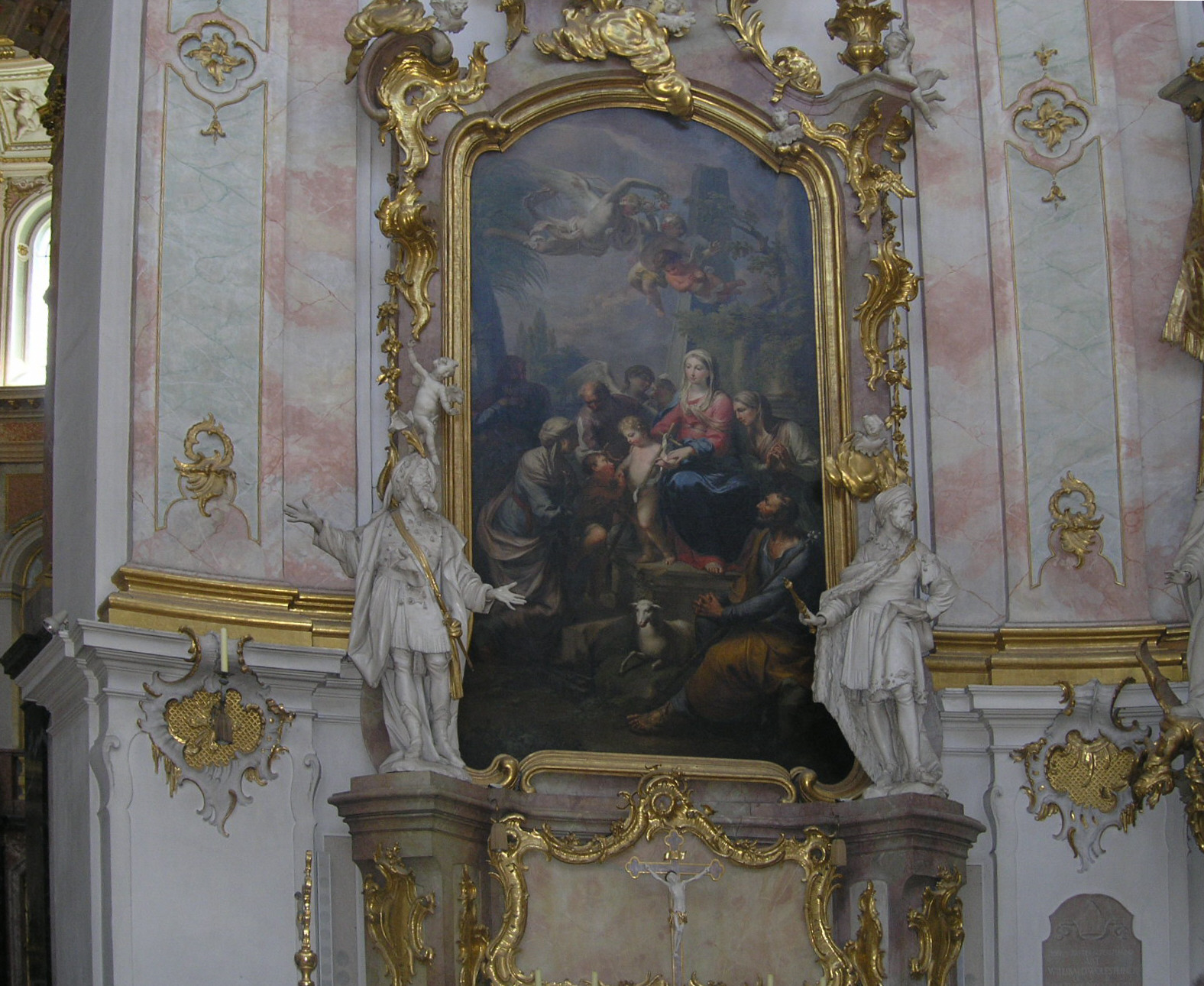 The monastery church of Ettal Klosterkirche Ettal Date: 19 July 2006